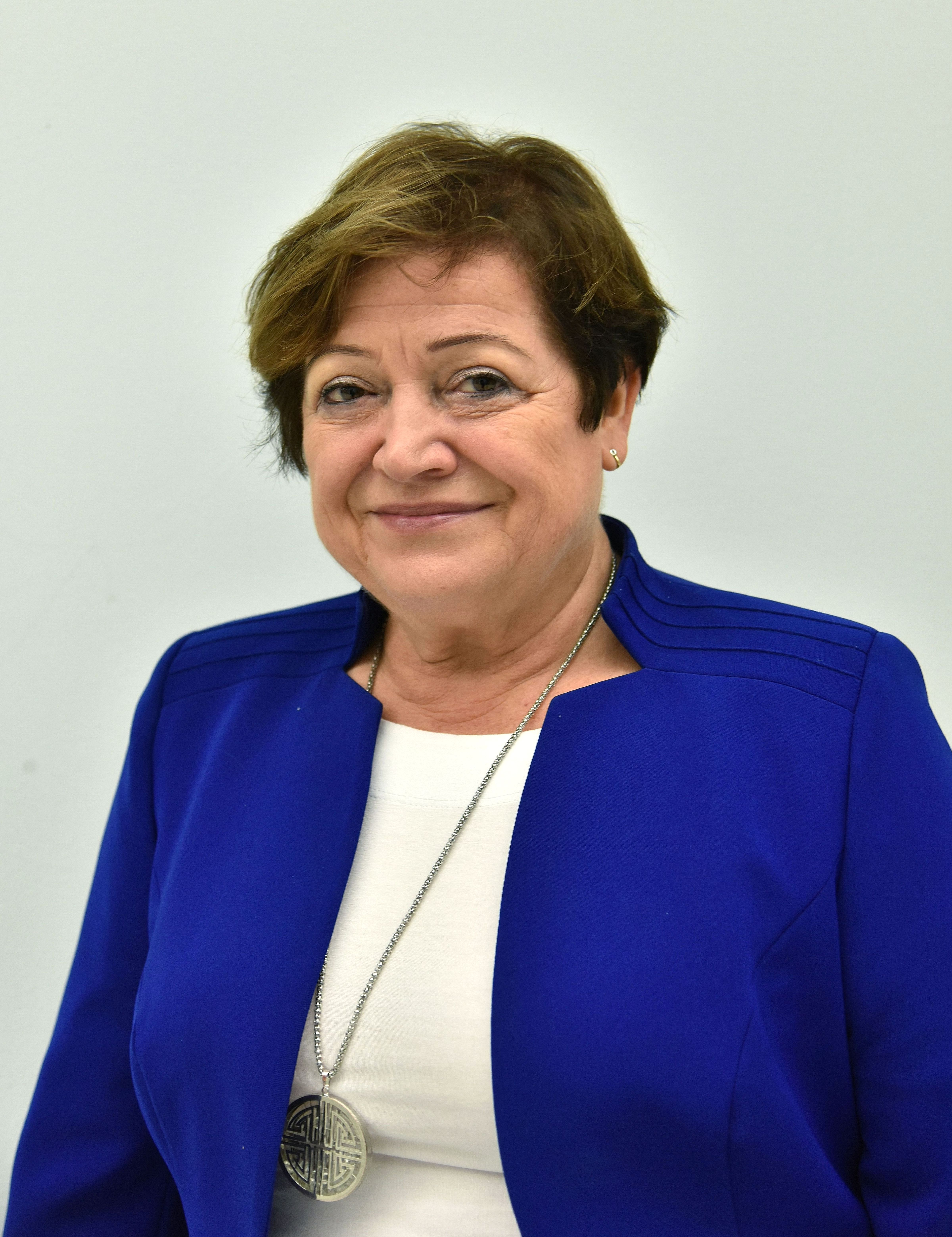 Polish MP Bożena Szydłowska